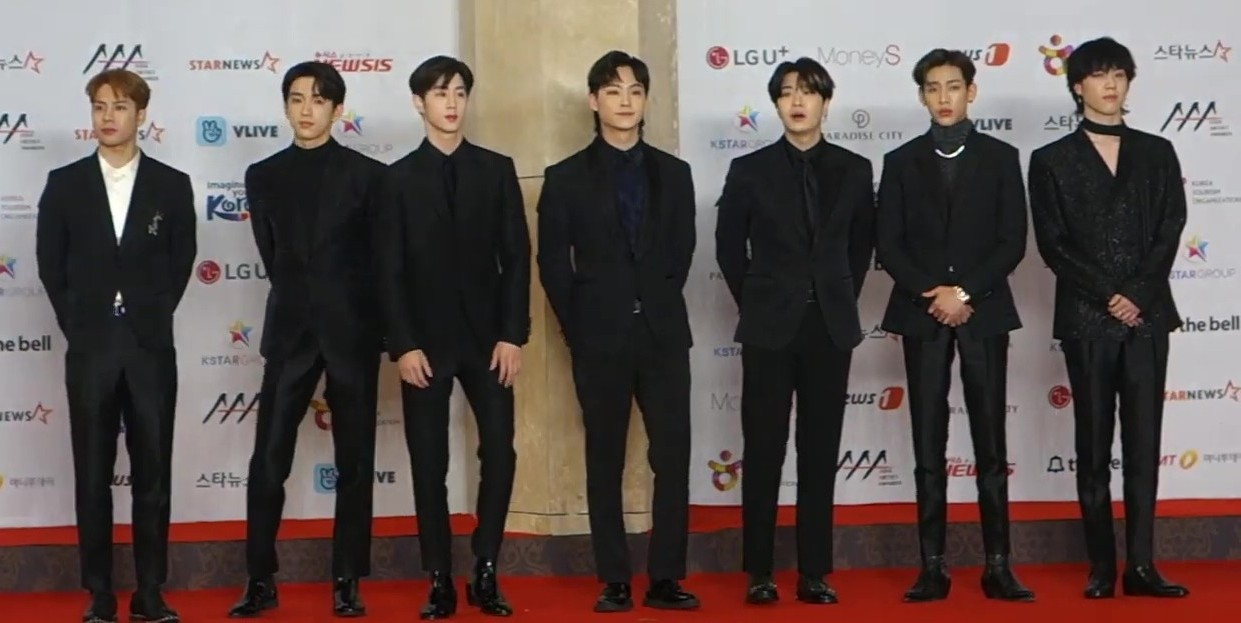 Got7 on the red carpet of 2018 Asia Artist Awards(AAA), 28 November 2018